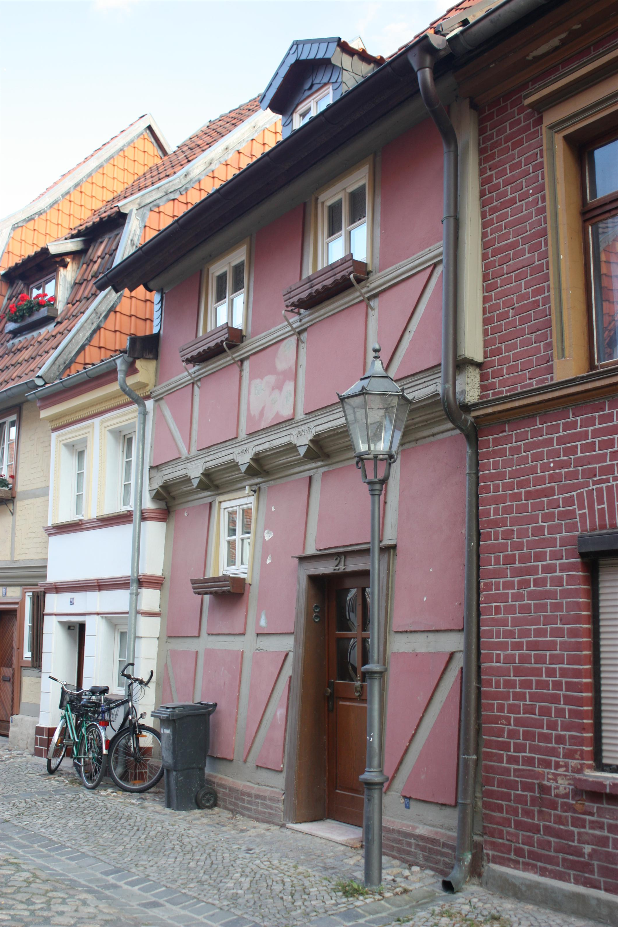 This is a photograph of an architectural monument.It is on the list of cultural monuments of Quedlinburg Wassertorstraße 21 (Quedlinburg)